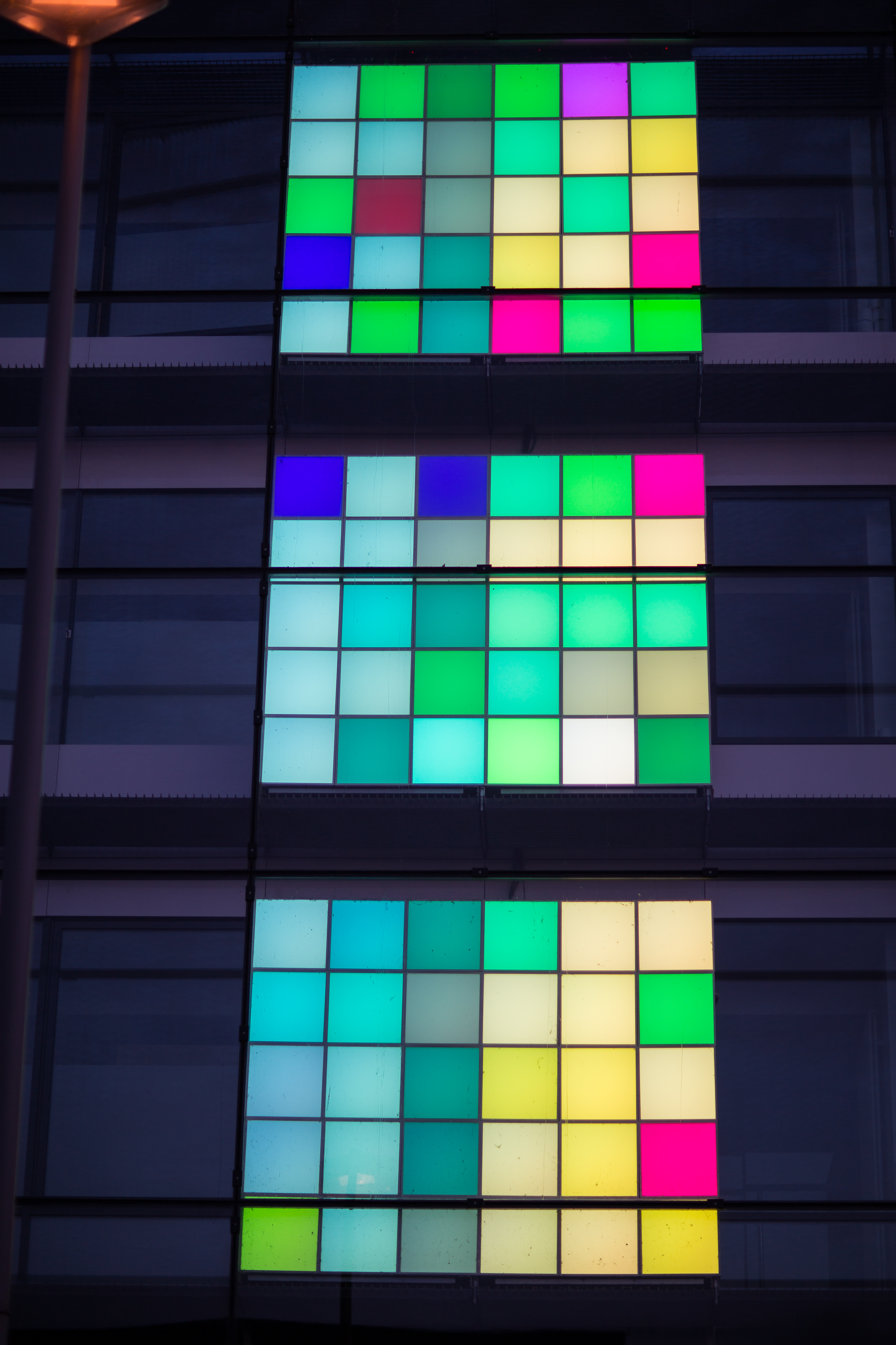 Artwork "Pacific Rim Around & Sideways Up" by Angela Bulloch installed at the facade of the Nord/LB office building located at Friedrichswall in Hanover, Germany.